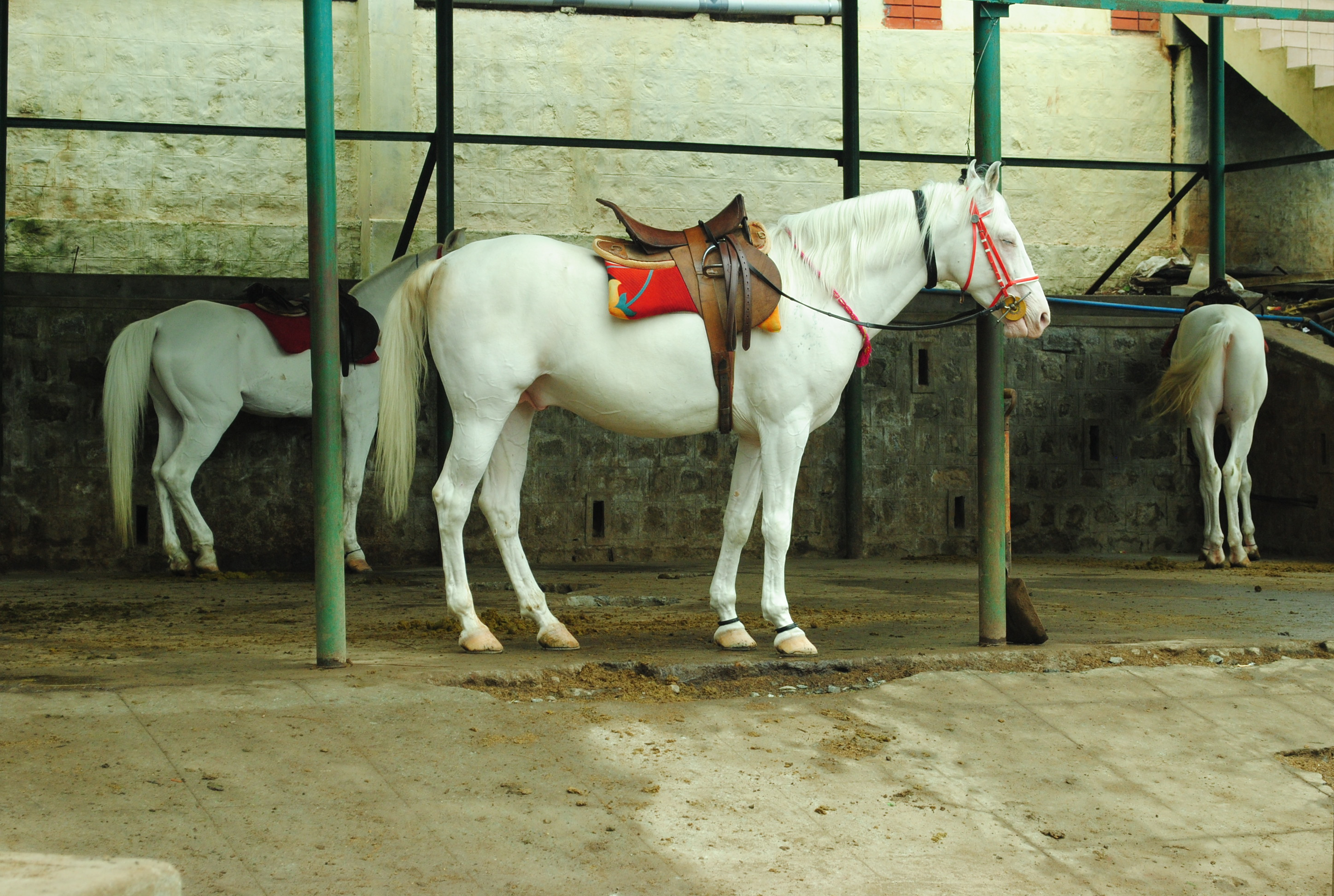 In Ooty a white horse in boat house near lake waiting its next ride in stable